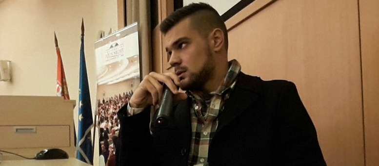 Predavanje na Univerzitetu John Naisbitt.